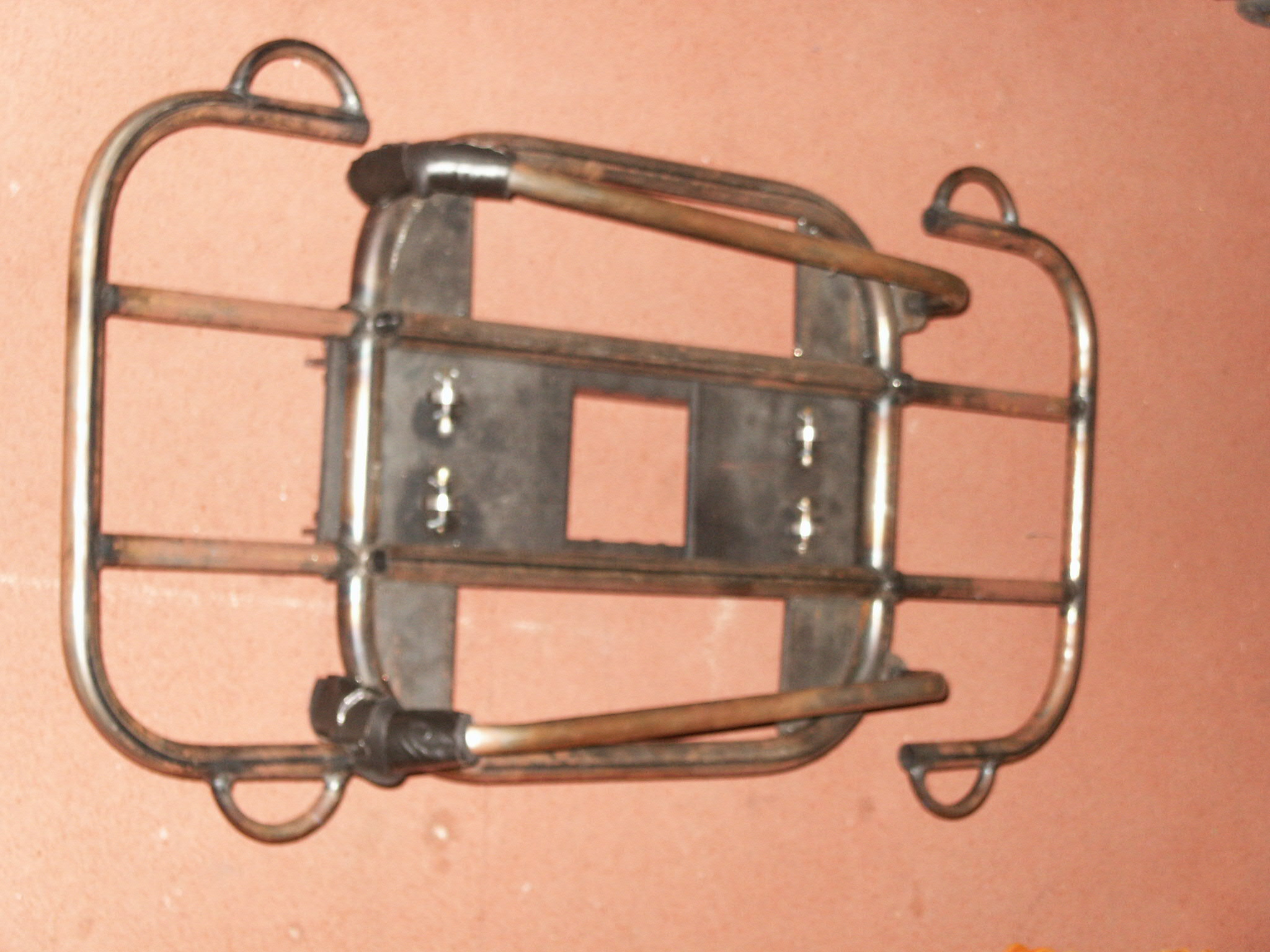 A practice skeleton sled at the Australian Institute of Sport. In selecting a team, potential athletes first practiced the push start, which involves a 30 metres sprint while pushing the sled. This sled does not have wheels underneath - it is only used while the athlete is running on a treadmill. Photo taken by uploader during an AIS open day (Sunday May 7 2006). Permission given by the AIS to use the photo. Permission: OTRS Ticket#: 2006051610001707